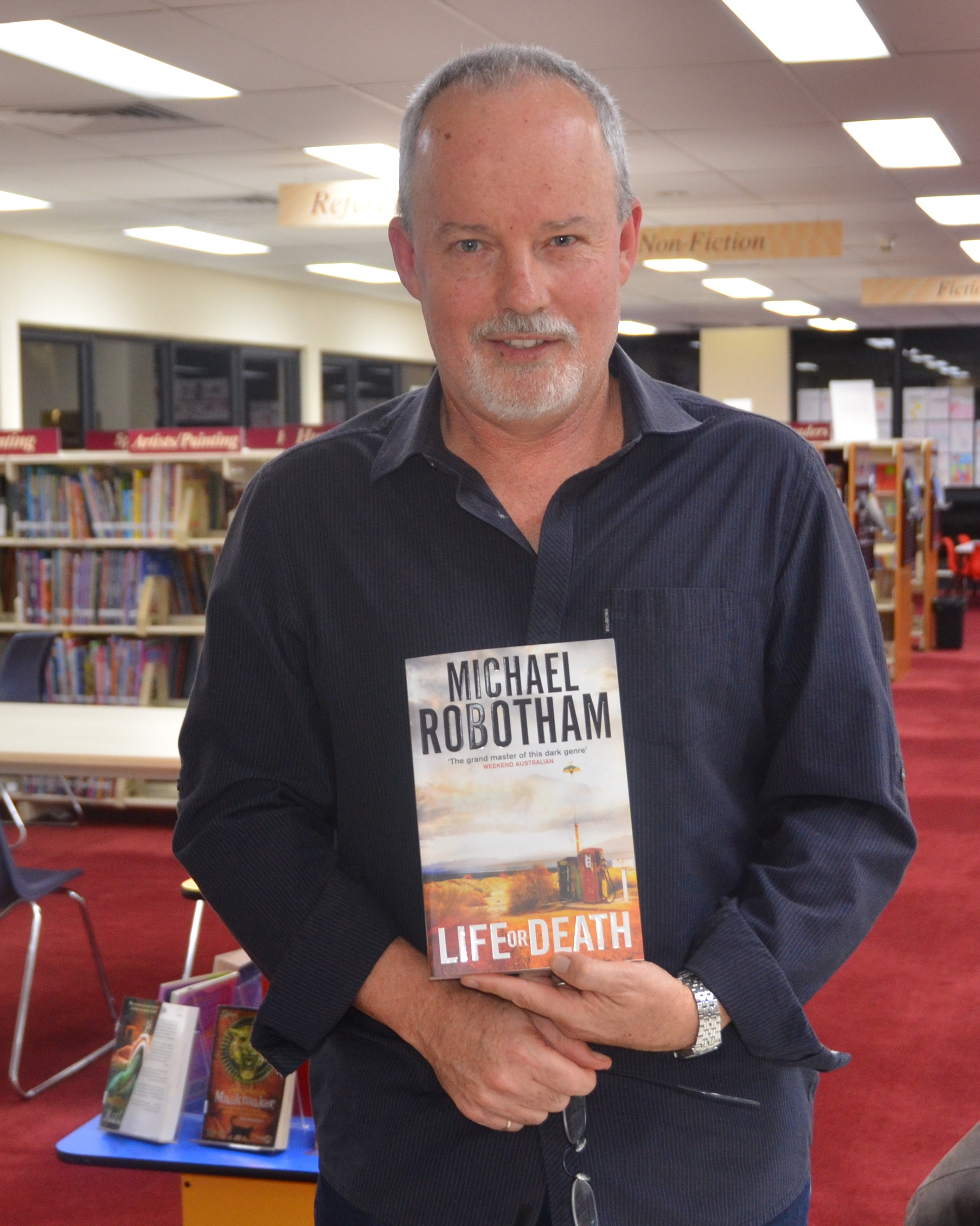 Michael Robotham in 2014